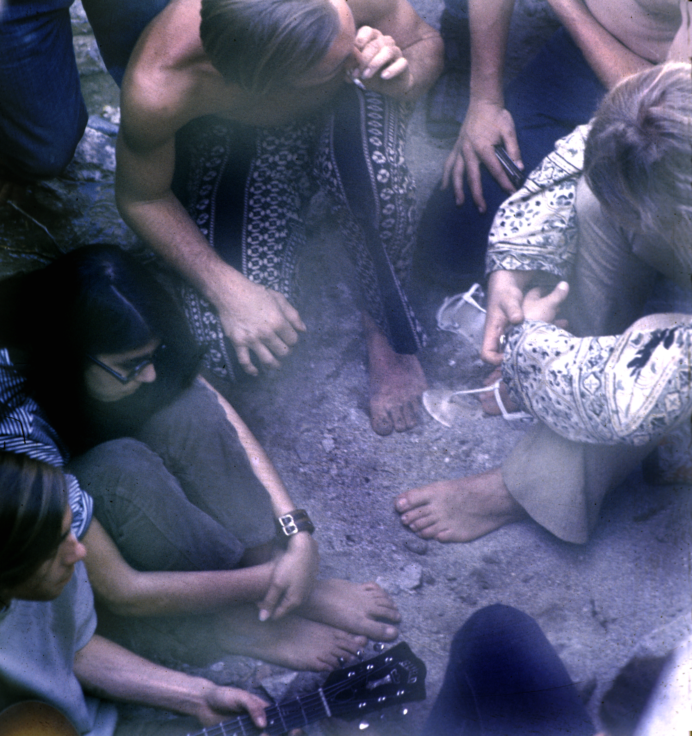 Taken in Tahquitz Canyon, Palm Springs, California.